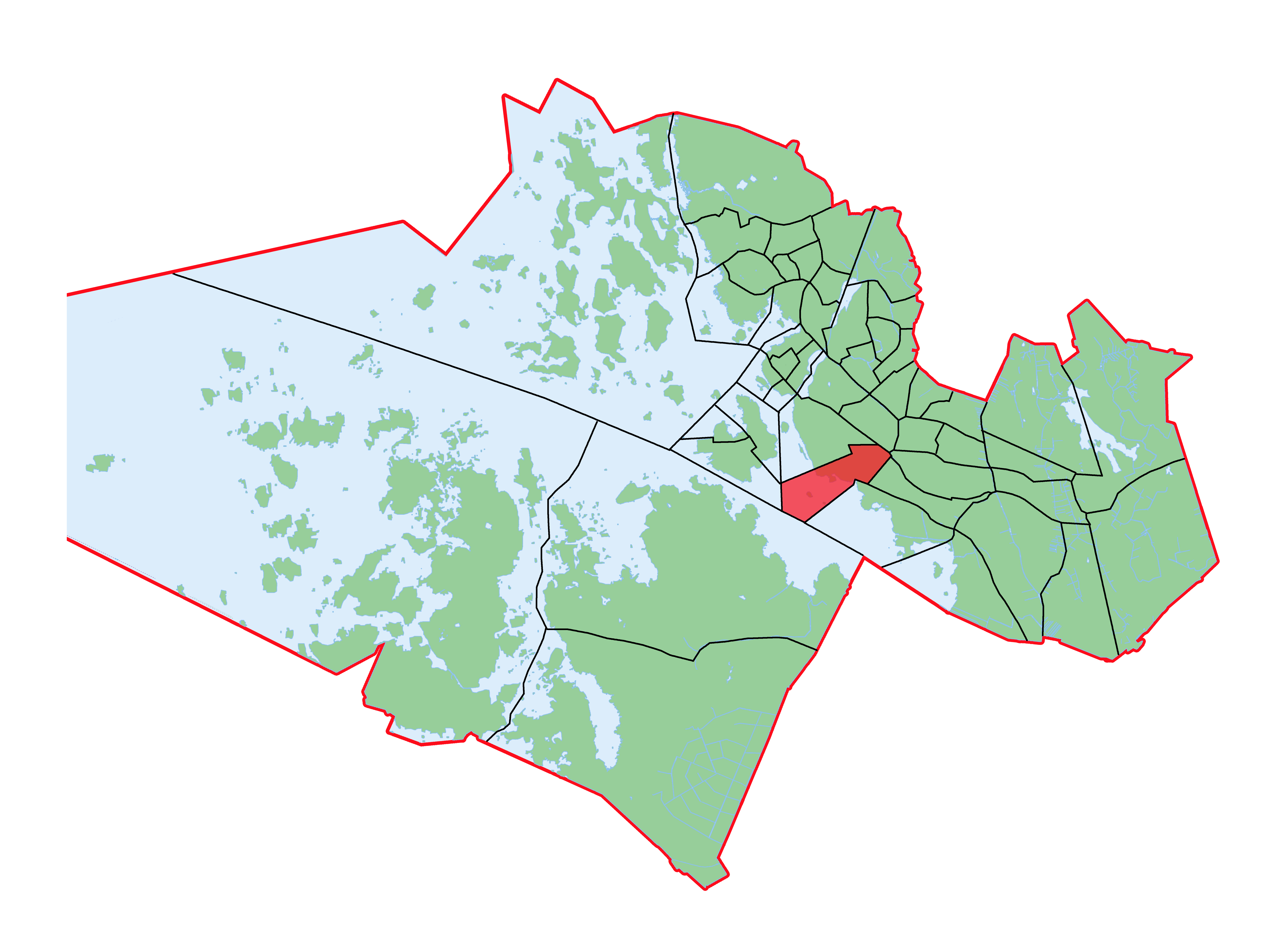 Hietalahti, Vaasa